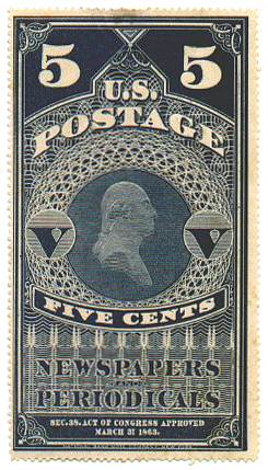 U.S. newspapers&periodicals postage stamp, George Washington, 5 cents, 1865-1875, 51×95 mm